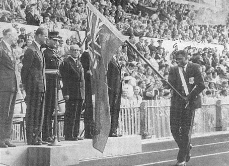 Tommy Robinson pictured during the 1958 British Empire Games in Cardiff, Wales. He was the only person representing The Bahamas at those Games where he received a Gold medal in the 220 yard dash and a Silver medal in the 100 yard dash.